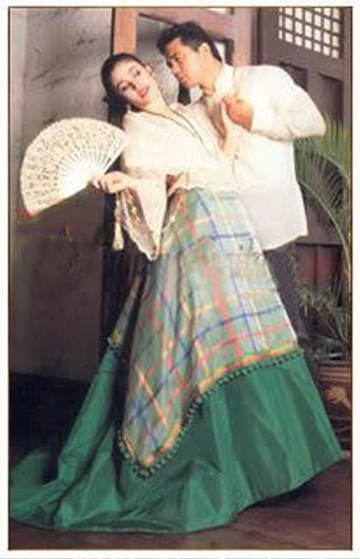 Filipino culture reflected to dance